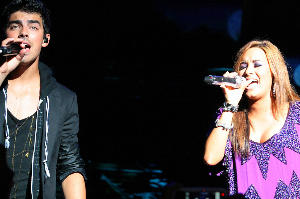 Joe Jonas and Demi Lovato performing in the Jonas Brothers Live In Concert